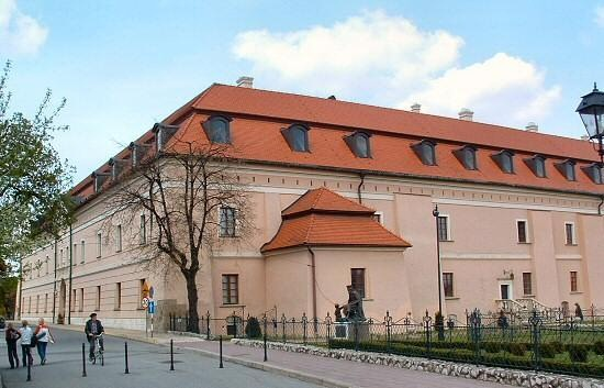 Castle of Polish Kings in Niepołomice, 25 km from Kraków (Cracow)